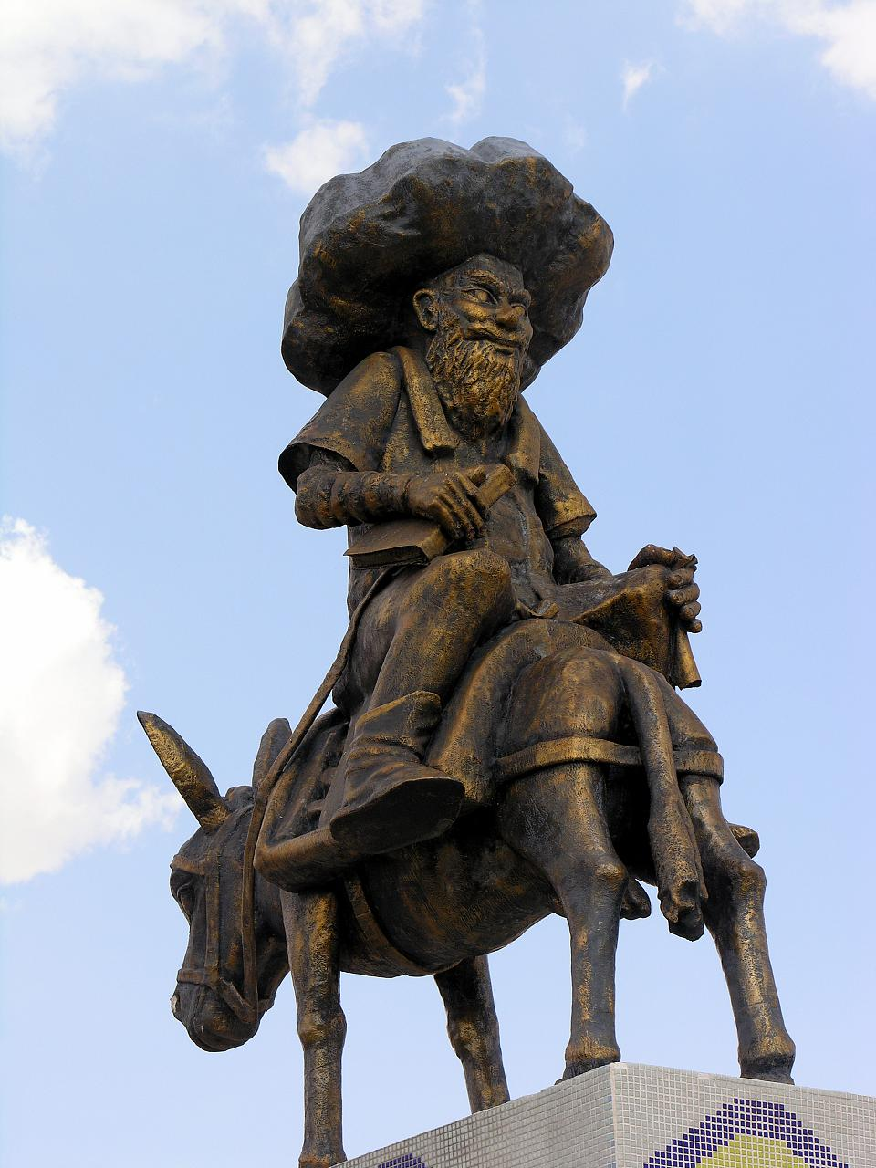 Nasrettin Hoca sculpture. Yenişehir, Bursa, Türkiye